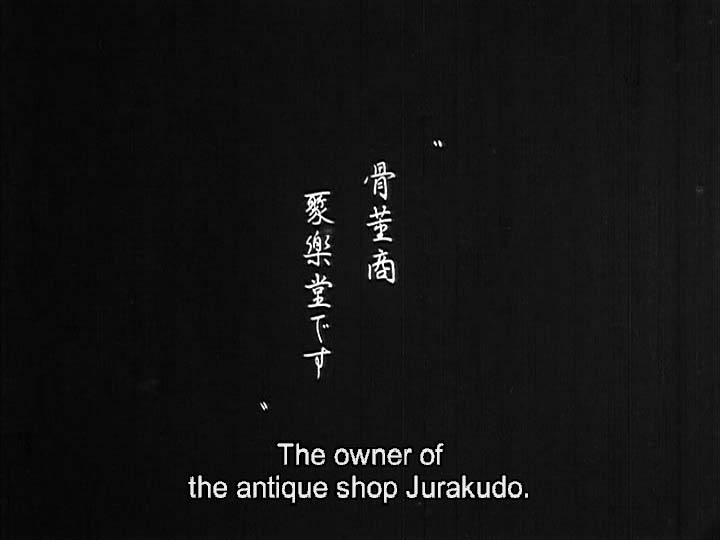 The Downfall of Osen